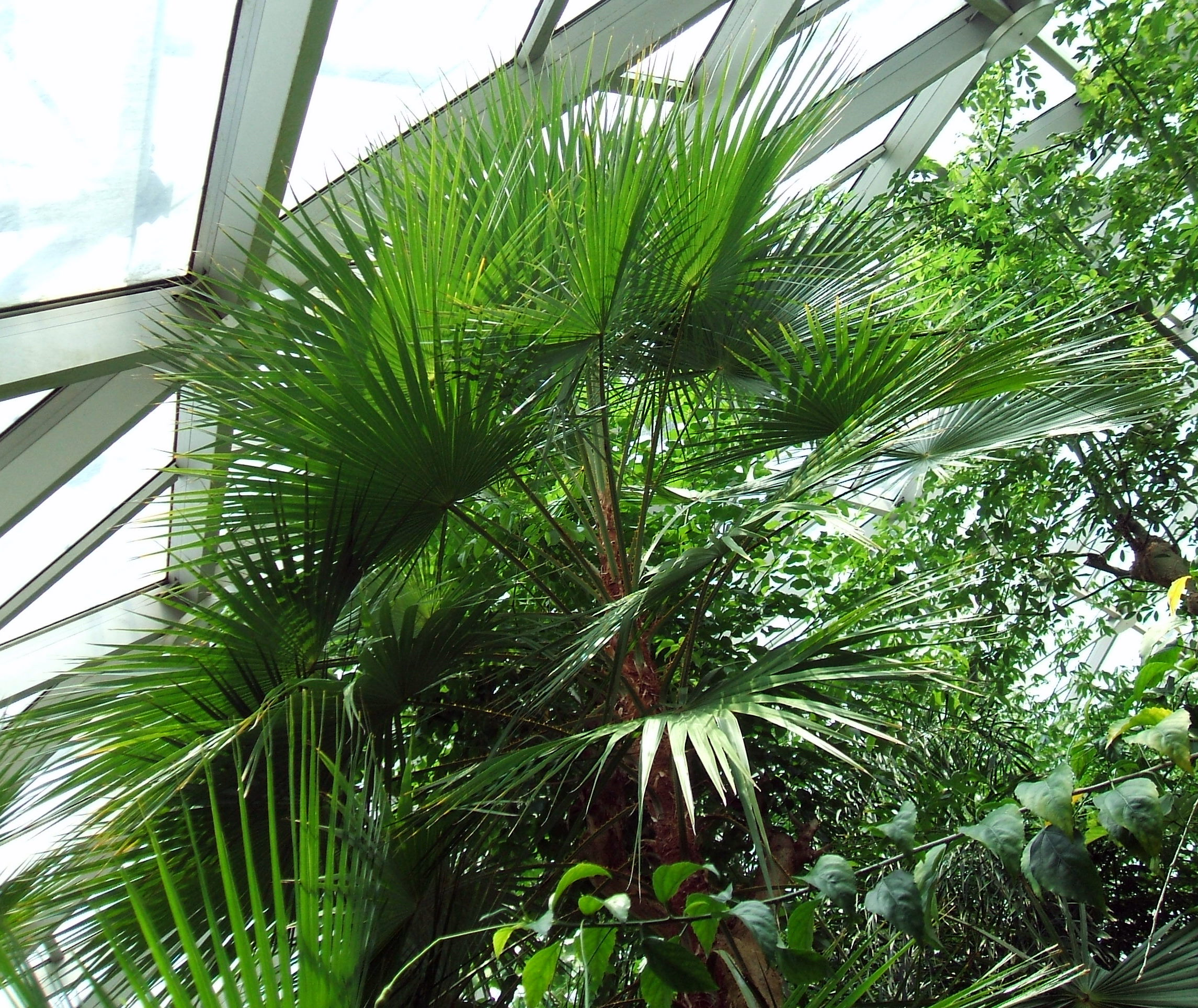 Acoelorraphe wrightii, at the Missouri Botanical Gardens